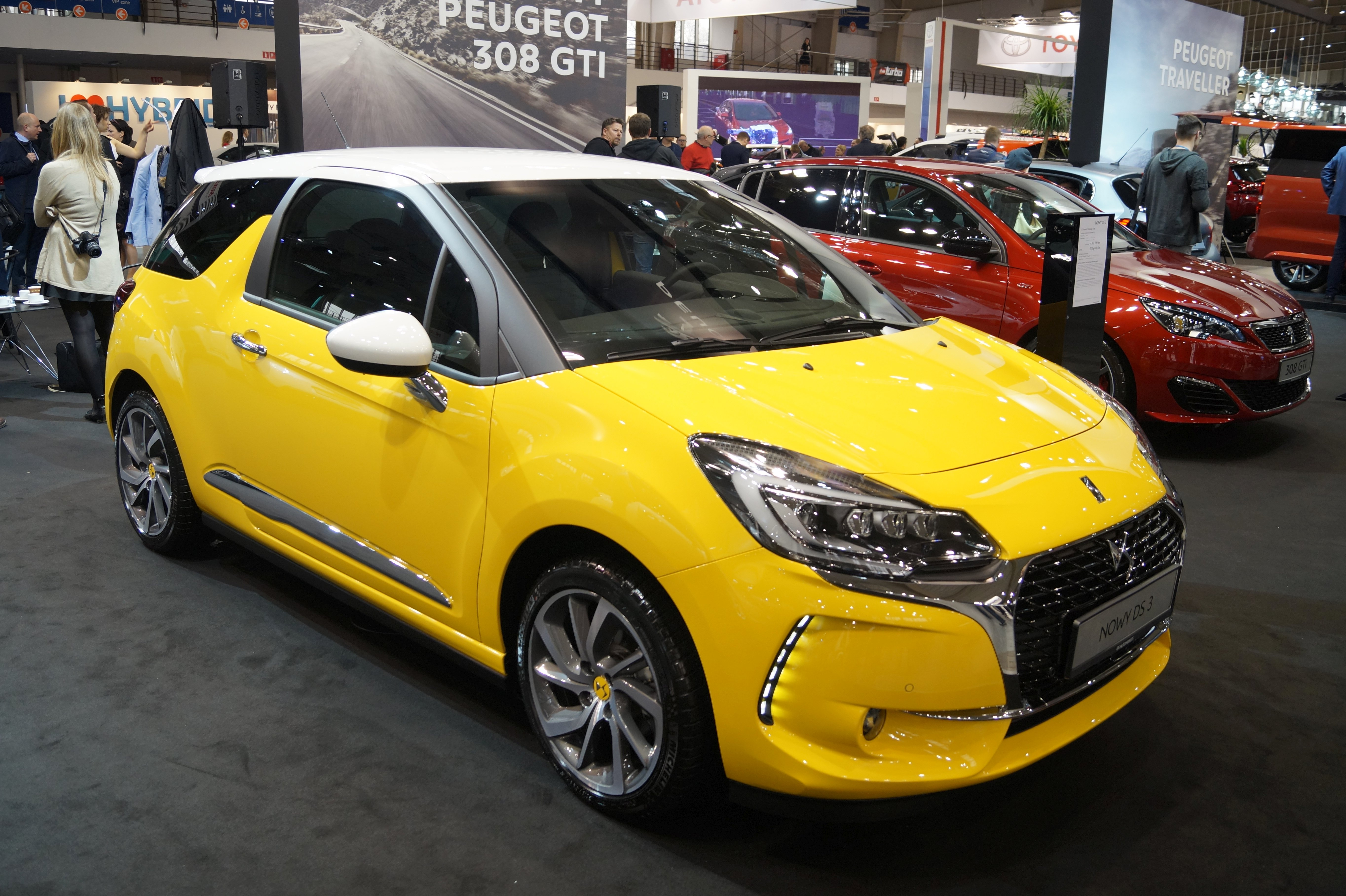 The making of this document was supported by Wikimedia Polska Association, within Wikigrant no. WG 2016-10. Citroën DS3 na Motor Show Poznań 2016